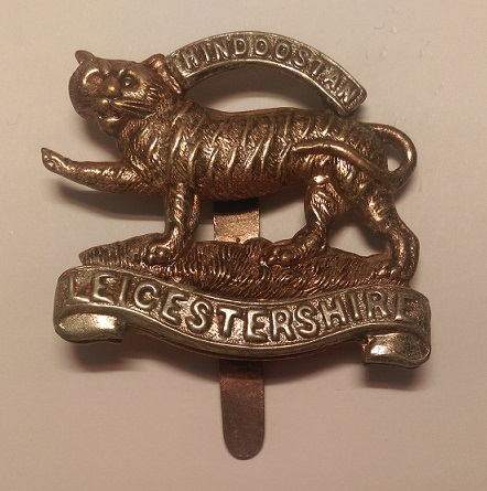 Photo of Royal Leicestershire Regiment Cap Badge from personal collection